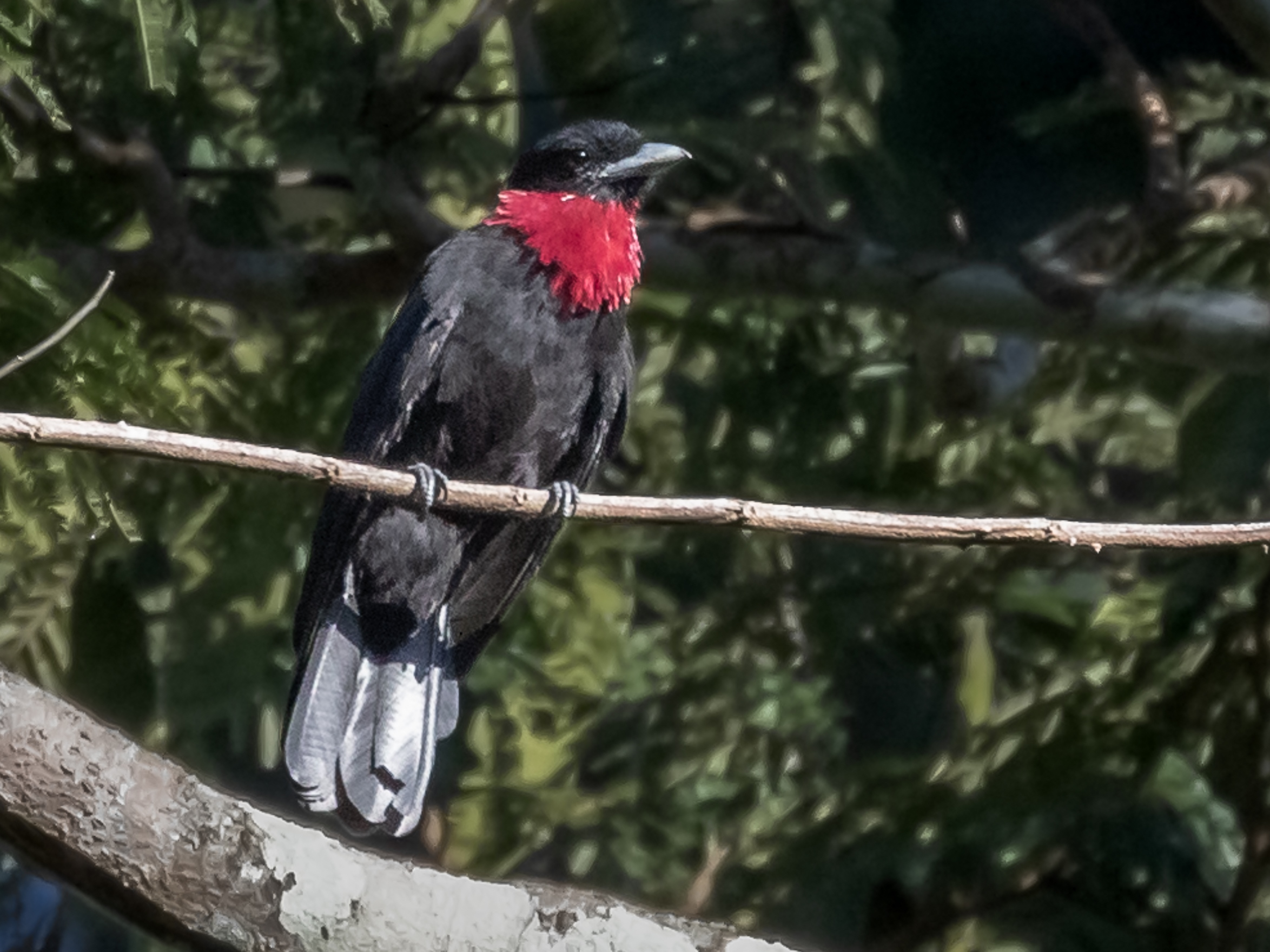 Purple-throated Fruitcrow (male); Parauapebas, Pará, Brazil